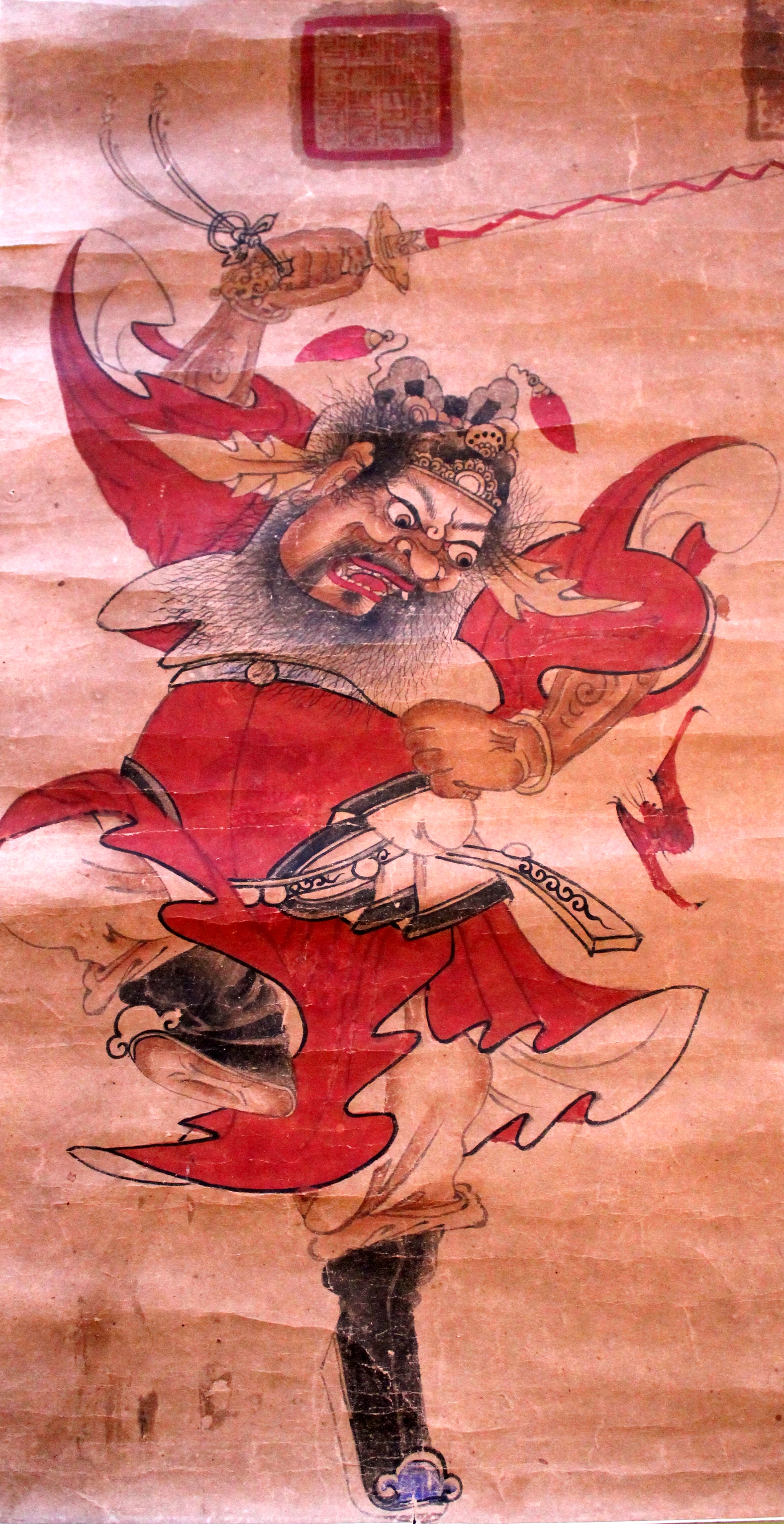 Hanging scroll " Deity " Zhong Kui the Demon Queller. Ink and Colours on Paper,a property of my asian art collection. King muh (talk) 08:26, 9 September 2016 (UTC)